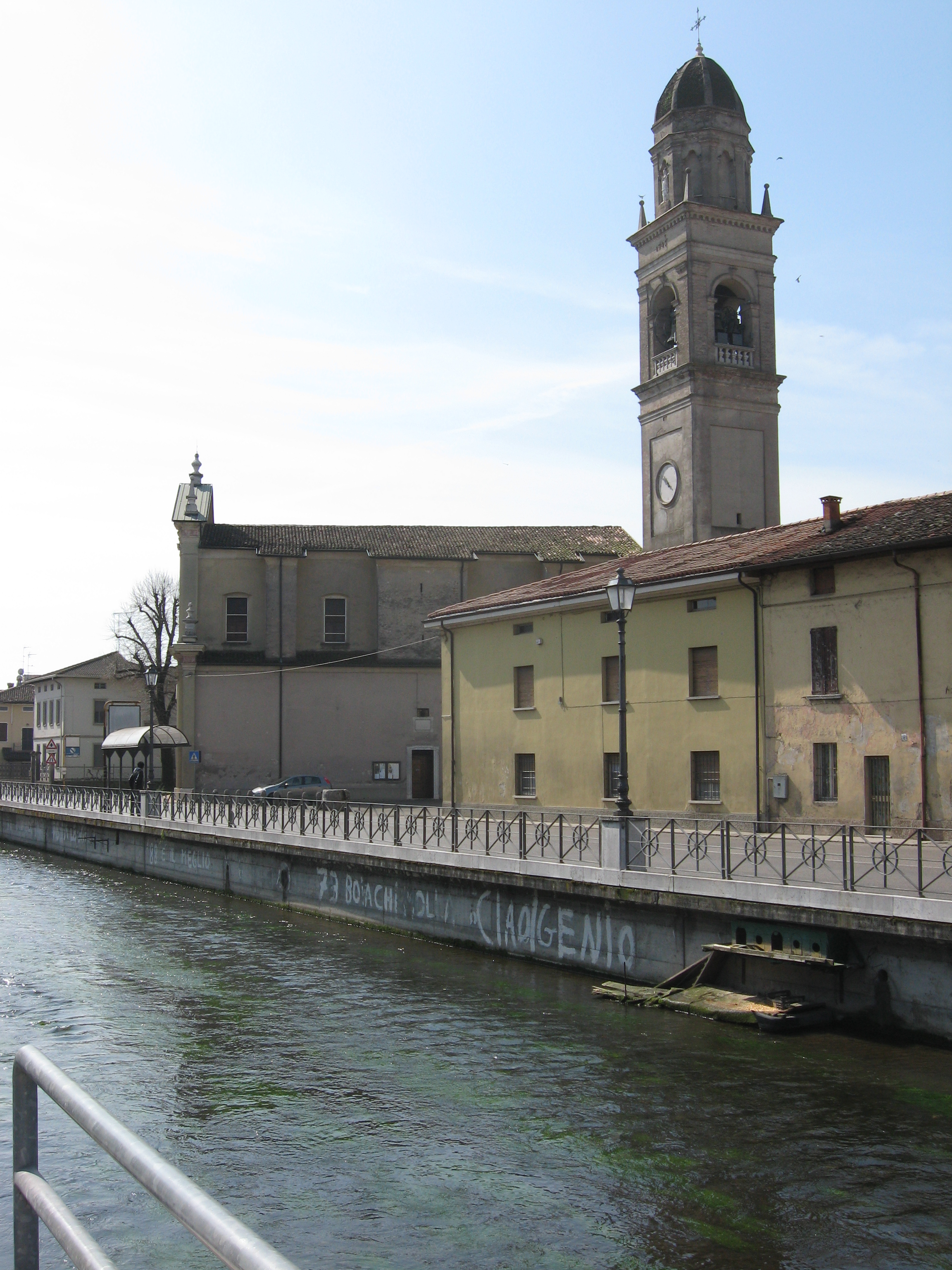 Santa Maria Annunciata church, Isorella, province of Brescia, Italy